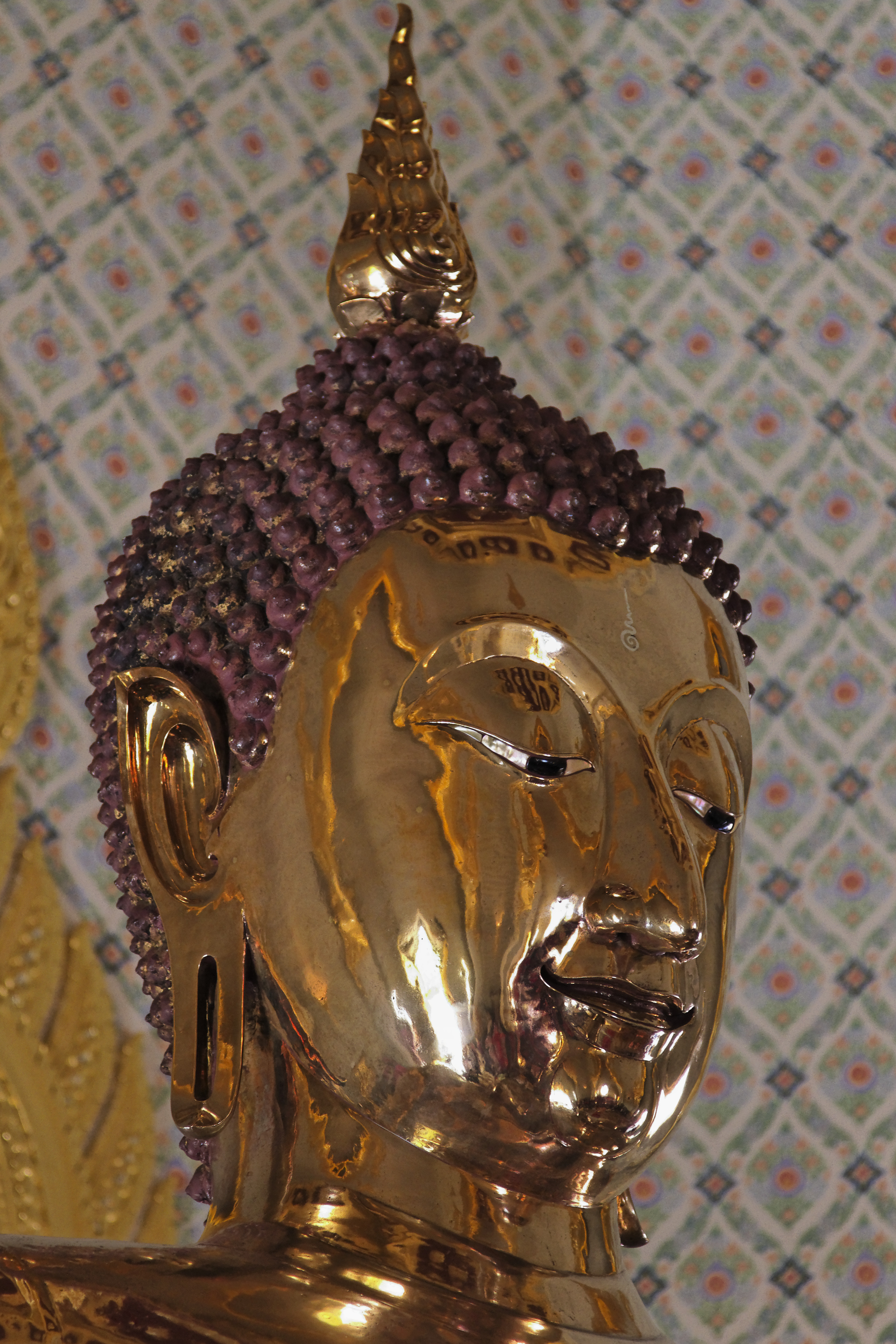 Wat Trimitr, Bangkok, Thailand